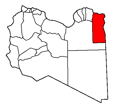 map of libya showing Shabiat Al Butnan